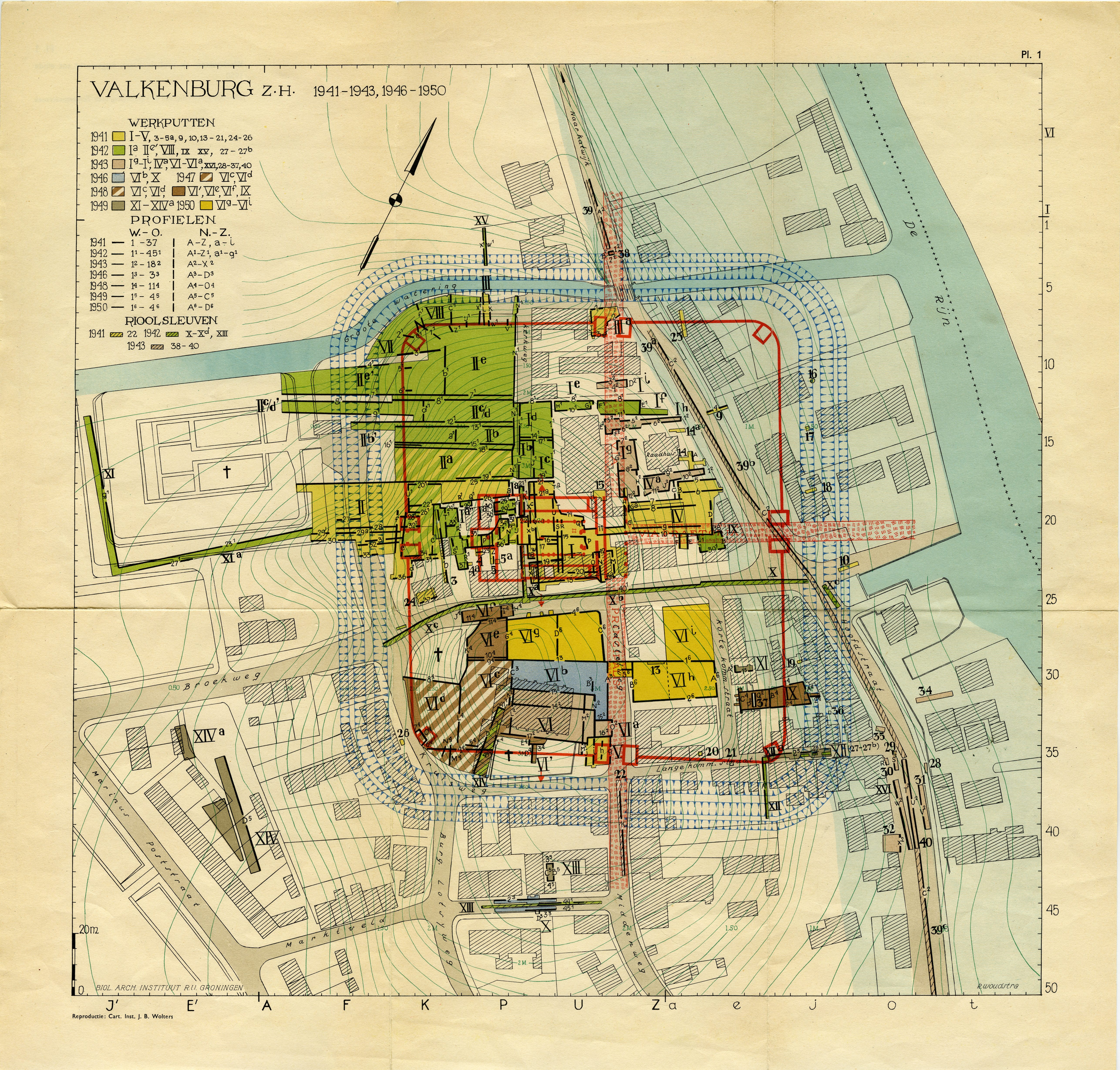 Map of the excavations of the Roman castellum at Valkenburg, South Holland, between 1941-1943 and 1946-1950.